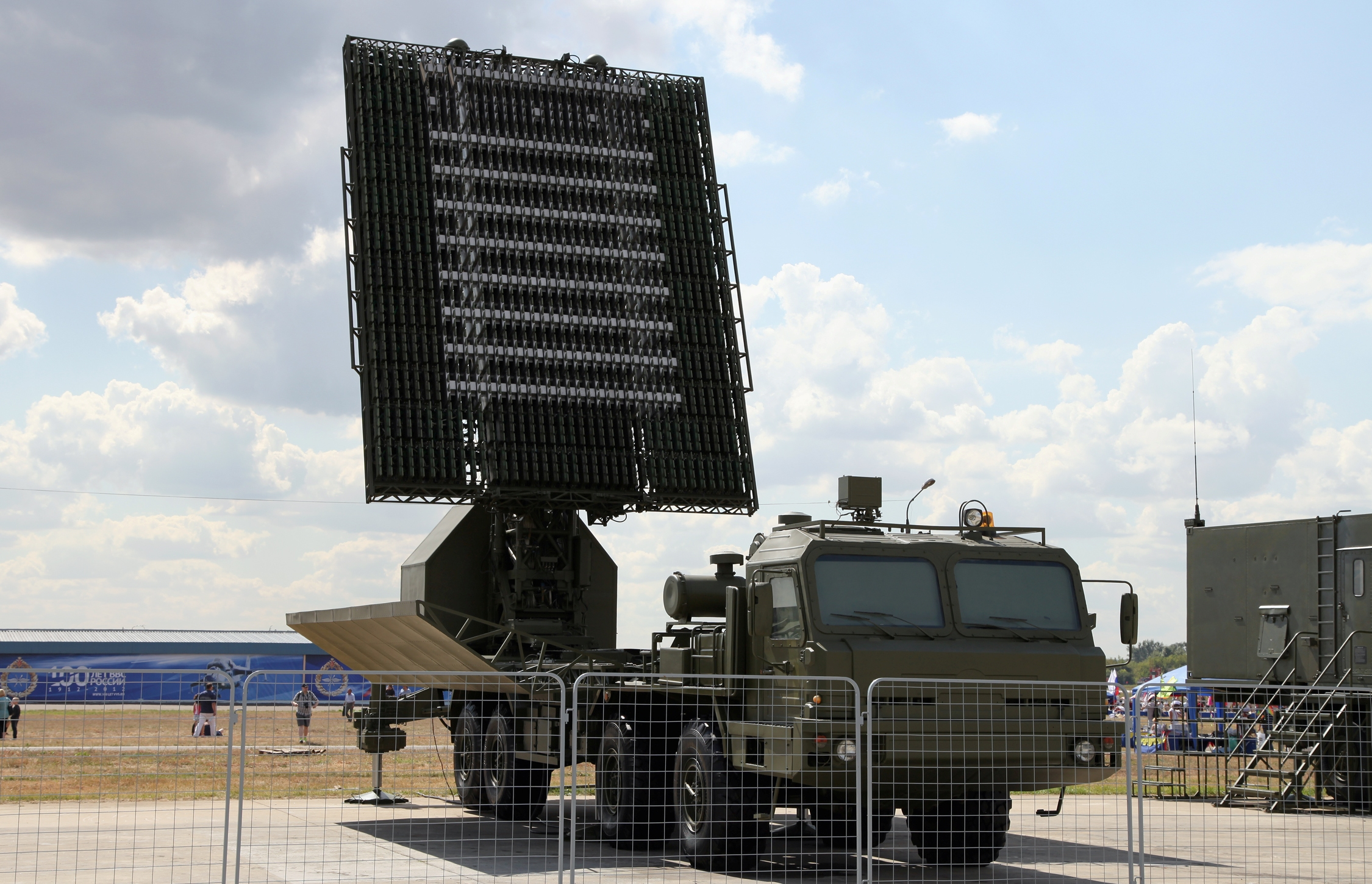 100th Anniversary of the Russian Air Force - Air defence systems of Russian original are shown. The RLM-D component of the Nebo-M-radar is a derivative of the L-band Protivnik-G/GE-series radar.